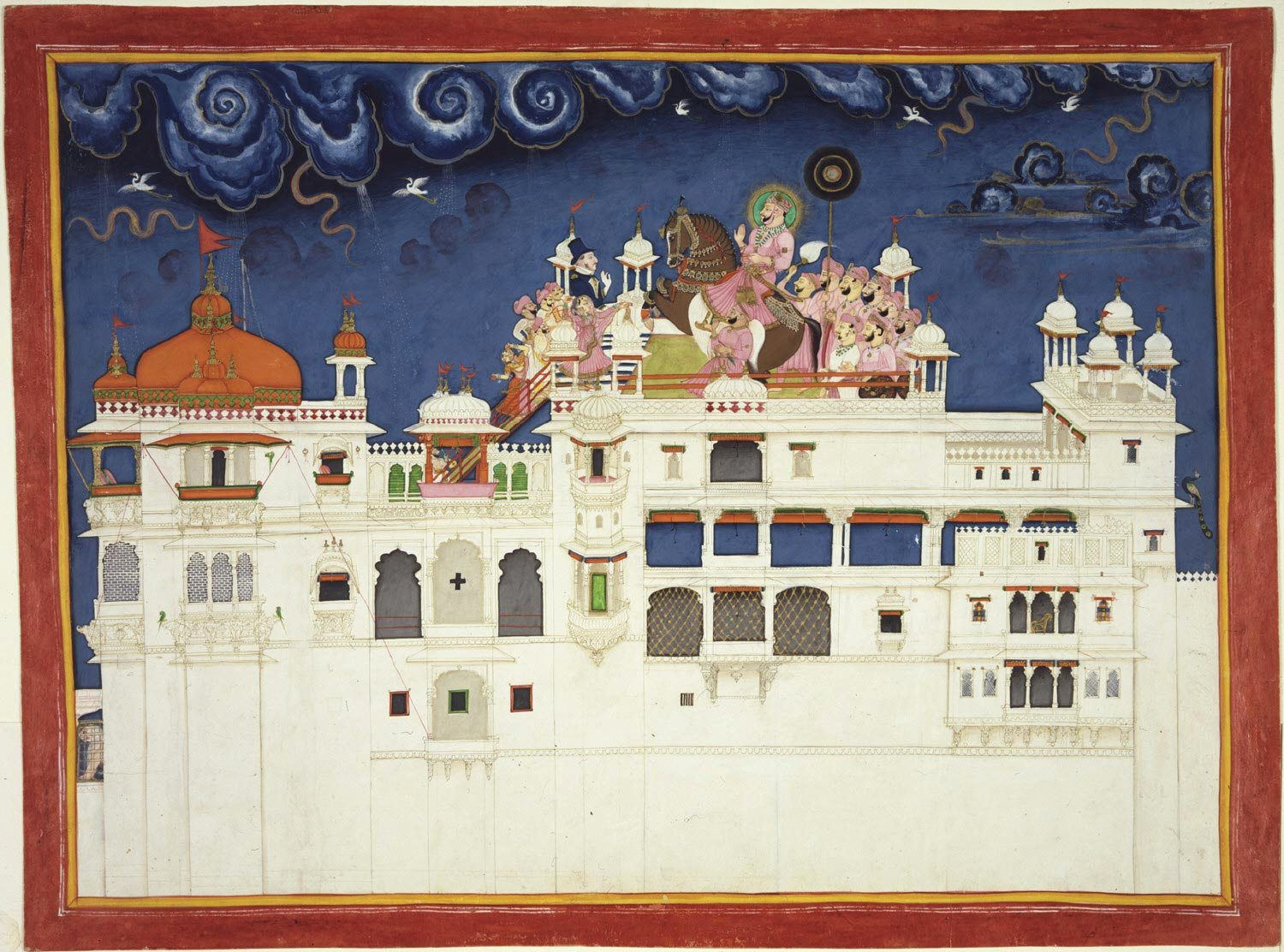 Maharao Ram Singh II of Kota Riding His Horse on the Palace Roof 1851 Philadelphia MOA